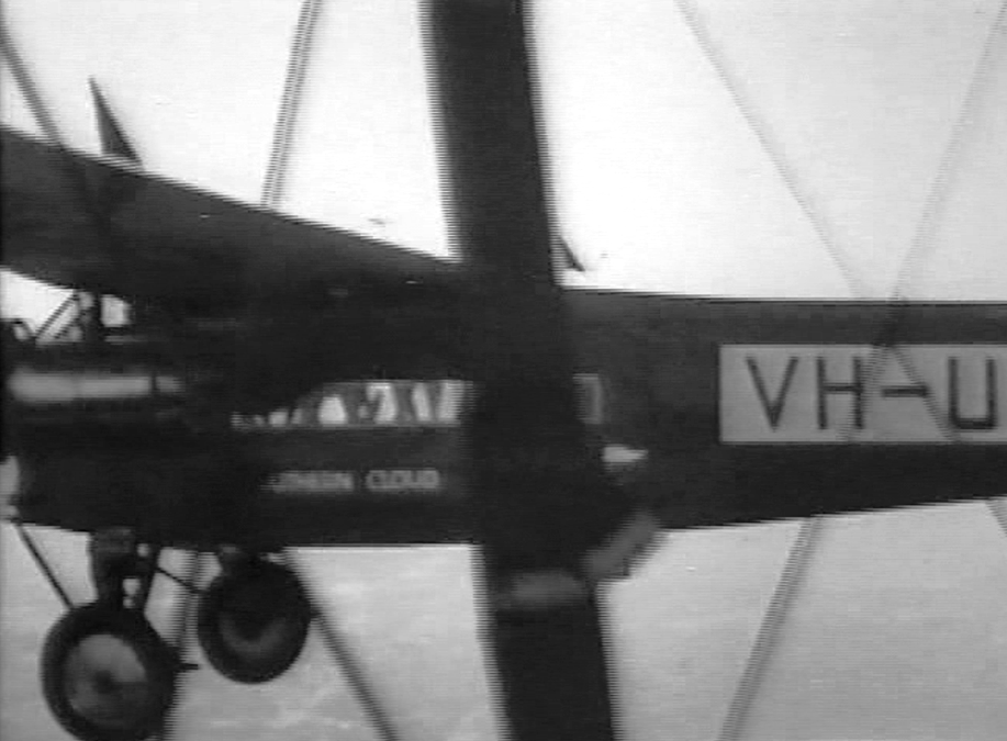 Avro "Southern Cloud" in flight. Crashed in 1931